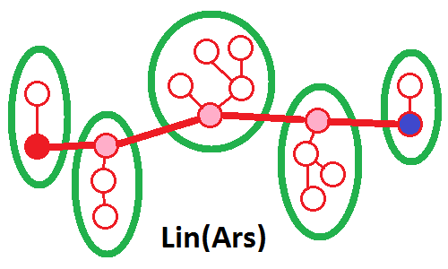 ilustration of a Lin(Ars) species, obtained from a tree after a double pointing